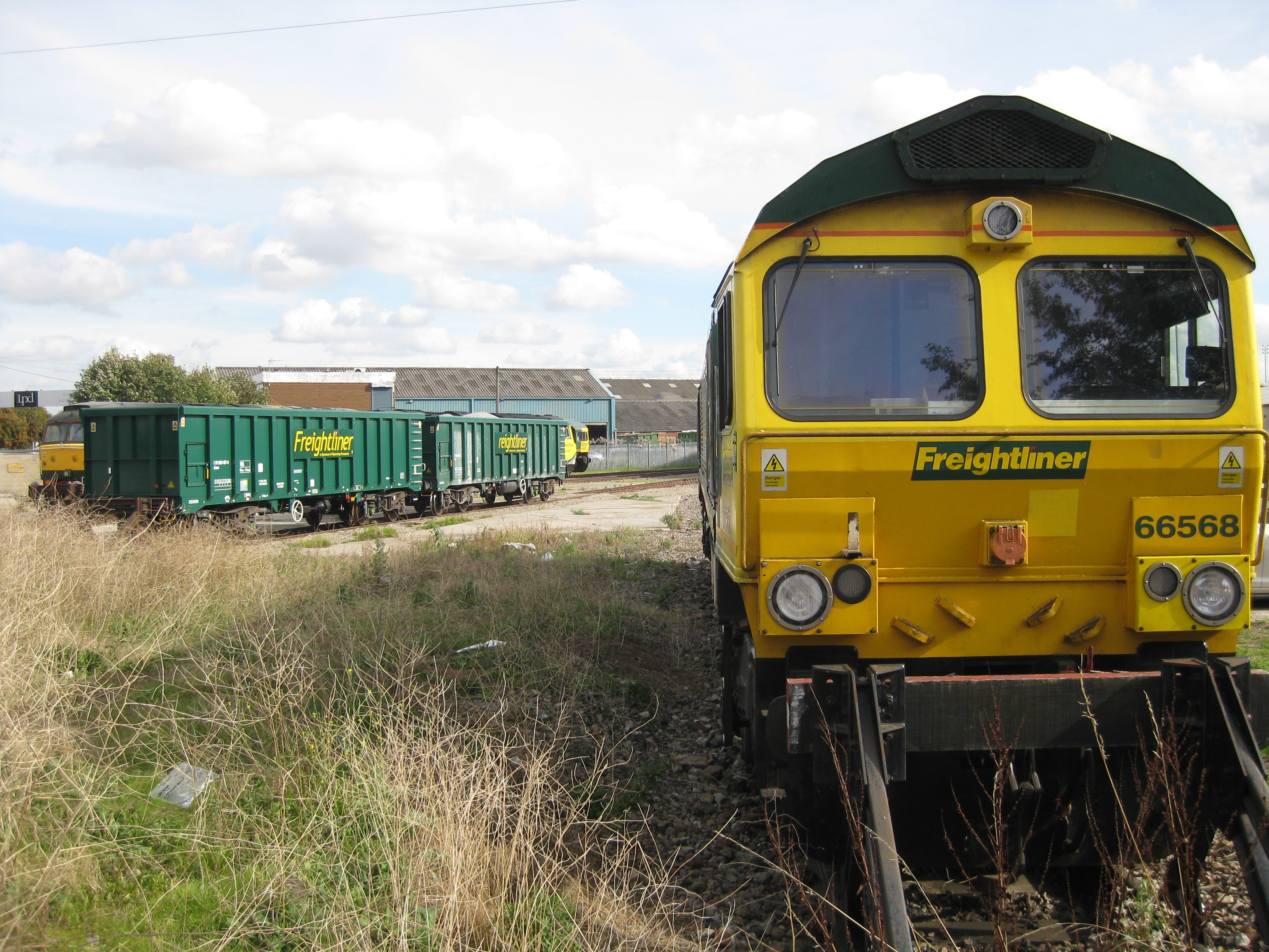 Locomotive and rail wagons at the Freightliner Leeds Vehicle Maintenance Facility, Hunslet, Leeds.